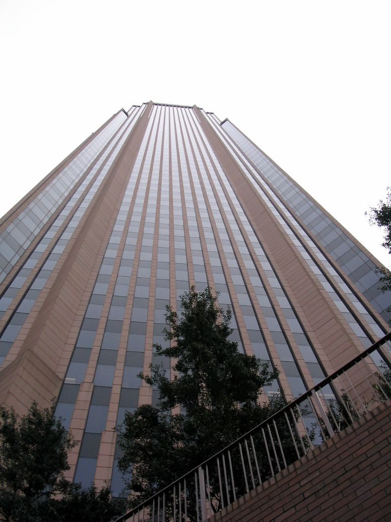 Bank of America Plaza